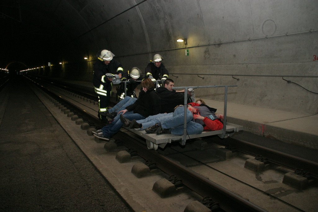 During a large-scale rescue practice on Günterscheid Tunnel, firefighters take out some "injured" on a roll pallet.